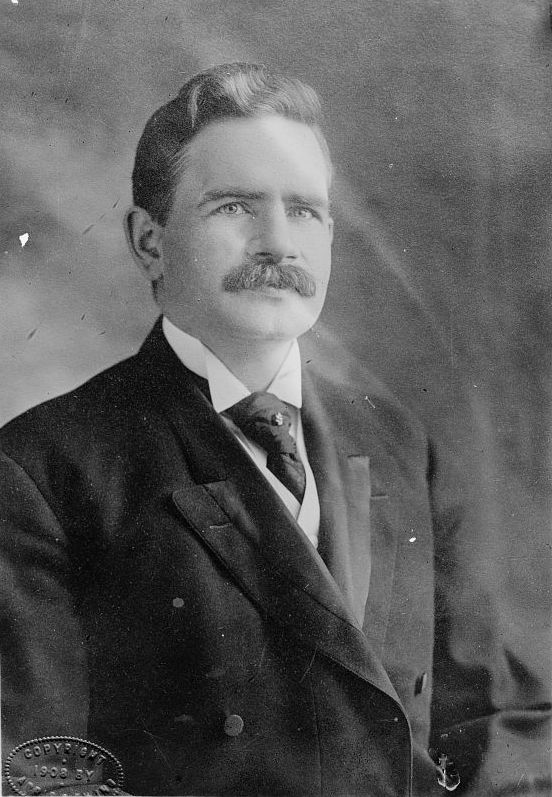 Wm. Willett Jr. (LOC) Bain News Service, publisher. William Willett, Jr. [between ca. 1910 and ca. 1915] 1 negative : glass ; 5 x 7 in. or smaller. Notes: Title from unverified data provided by the Bain News Service on the negatives or caption cards. Forms part of: George Grantham Bain Collection (Library of Congress). Format: Glass negatives. Repository: Library of Congress, Prints and Photographs Division, Washington, D.C. 20540 USA, General information about the Bain Collection is available at Persistent URL: Call Number: LC-B2- 2954-17